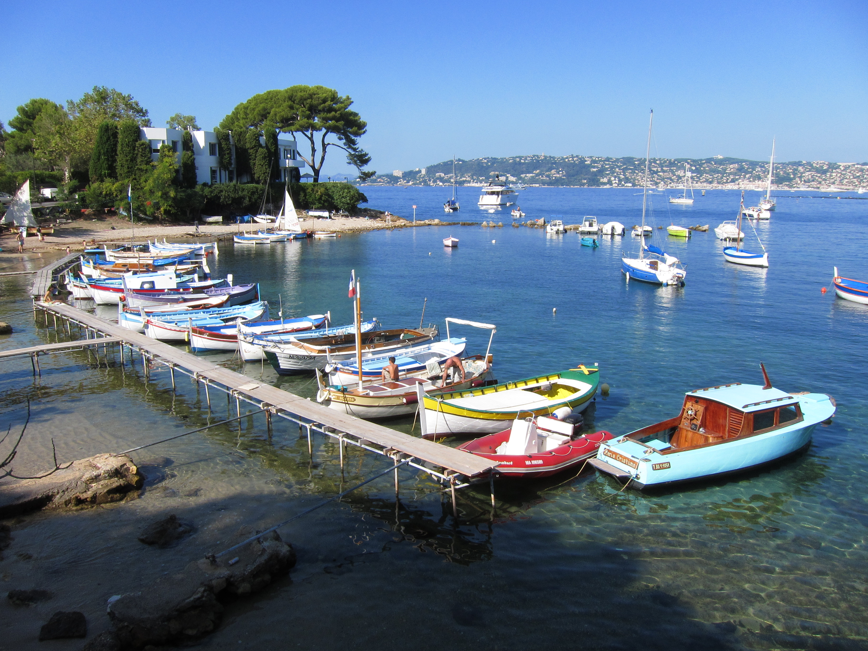 The harbour of "l'Olivette", located on the Cape of Antibes, on the French Riviera.